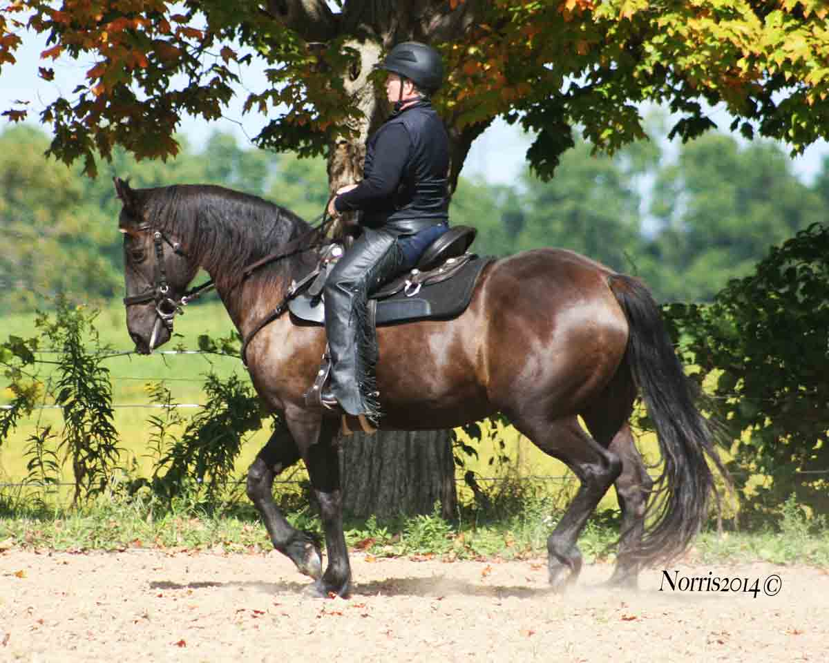 Photo of Western Dressage Horse